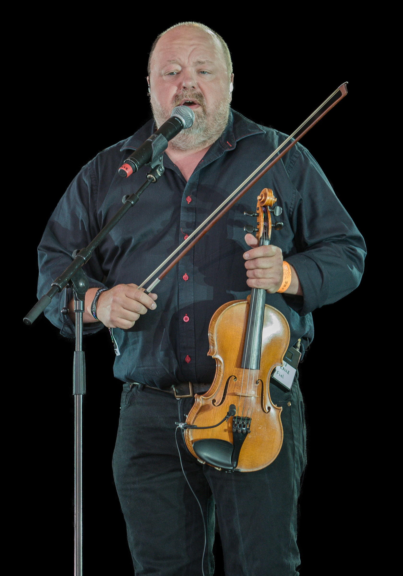 Kalle Moraeus July 2014